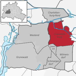 Location of borough Charlottenburg-Wilmersdorf in Berlin.